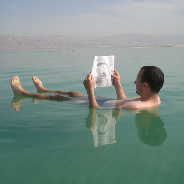 The Dead Sea has attracted visitors from around the Mediterranean basin for thousands of years. Biblically, it was a place of refuge for King David. It was one of the world's first health resorts (for Herod the Great), and it has been the supplier of a wide variety of products, from balms for Egyptian mummification to potash for fertilizers. People also use the salt and the minerals from the Dead Sea to create cosmetics and herbal sachets.